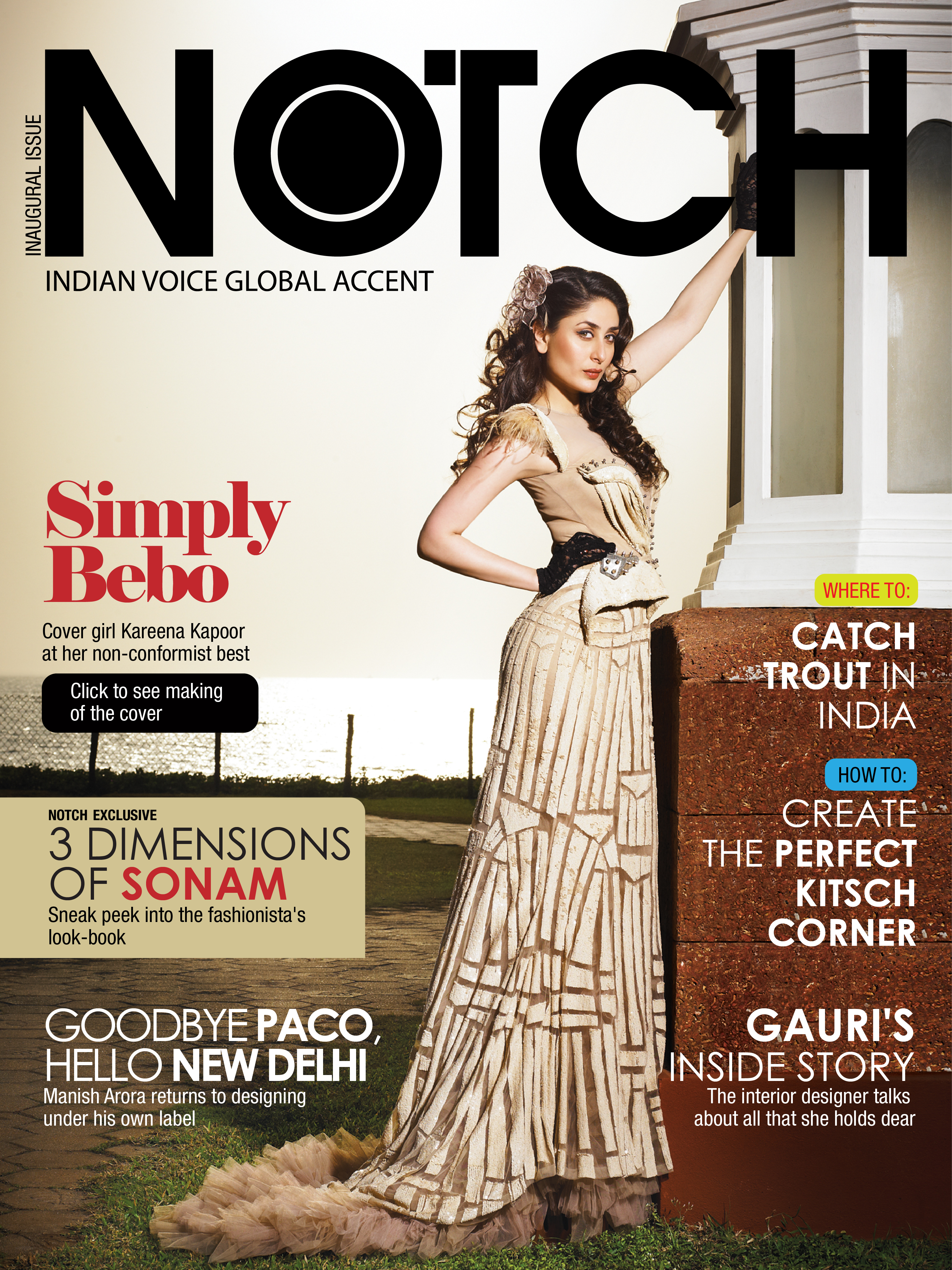 Copy of cover of inaugural 2012 issue of NOTCH Magazine, India's first digital lifestyle magazine, featuring actress Kareena Kapoor.